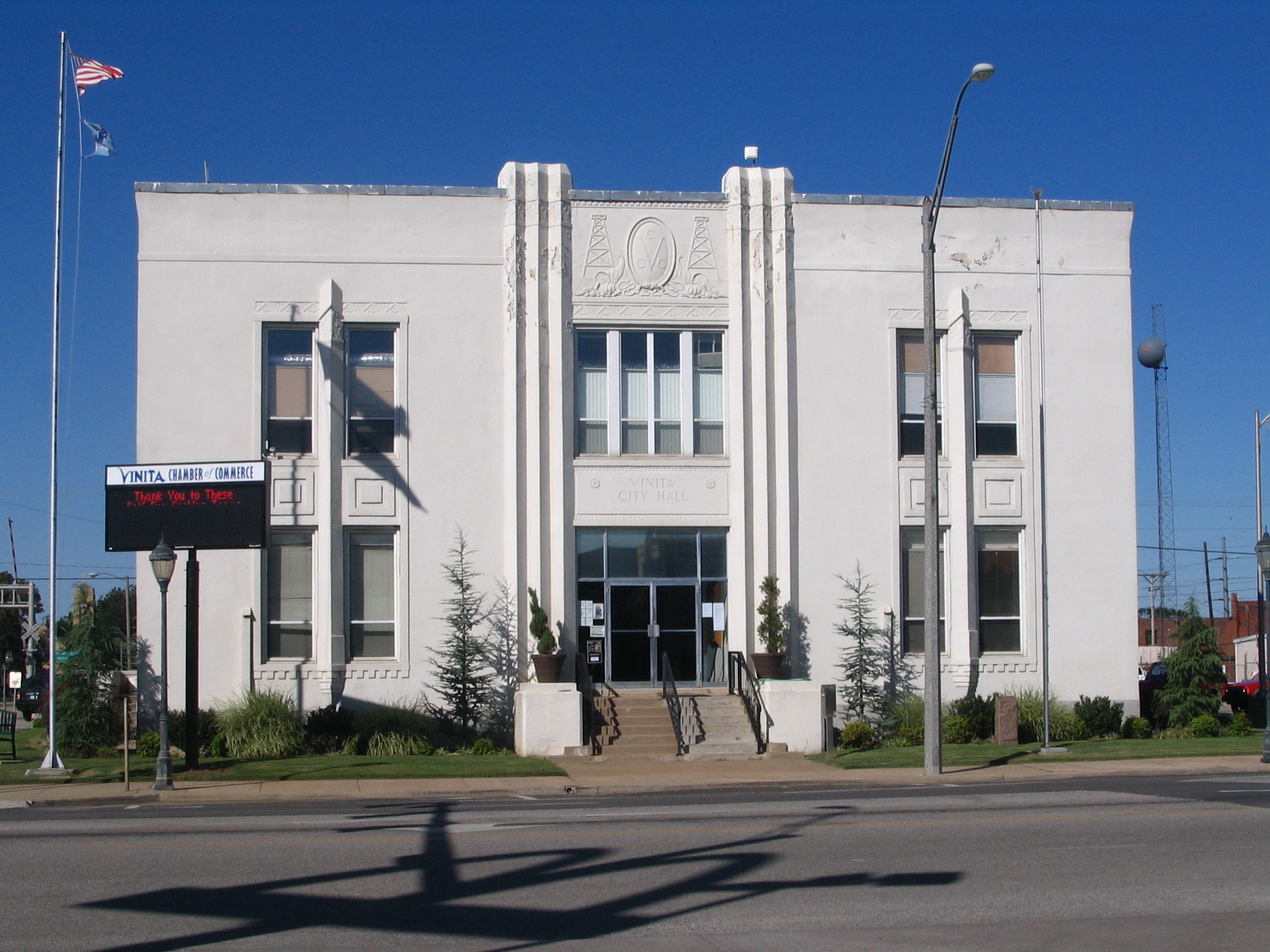 Vinita, OK City Hall and Chamber of Commerce